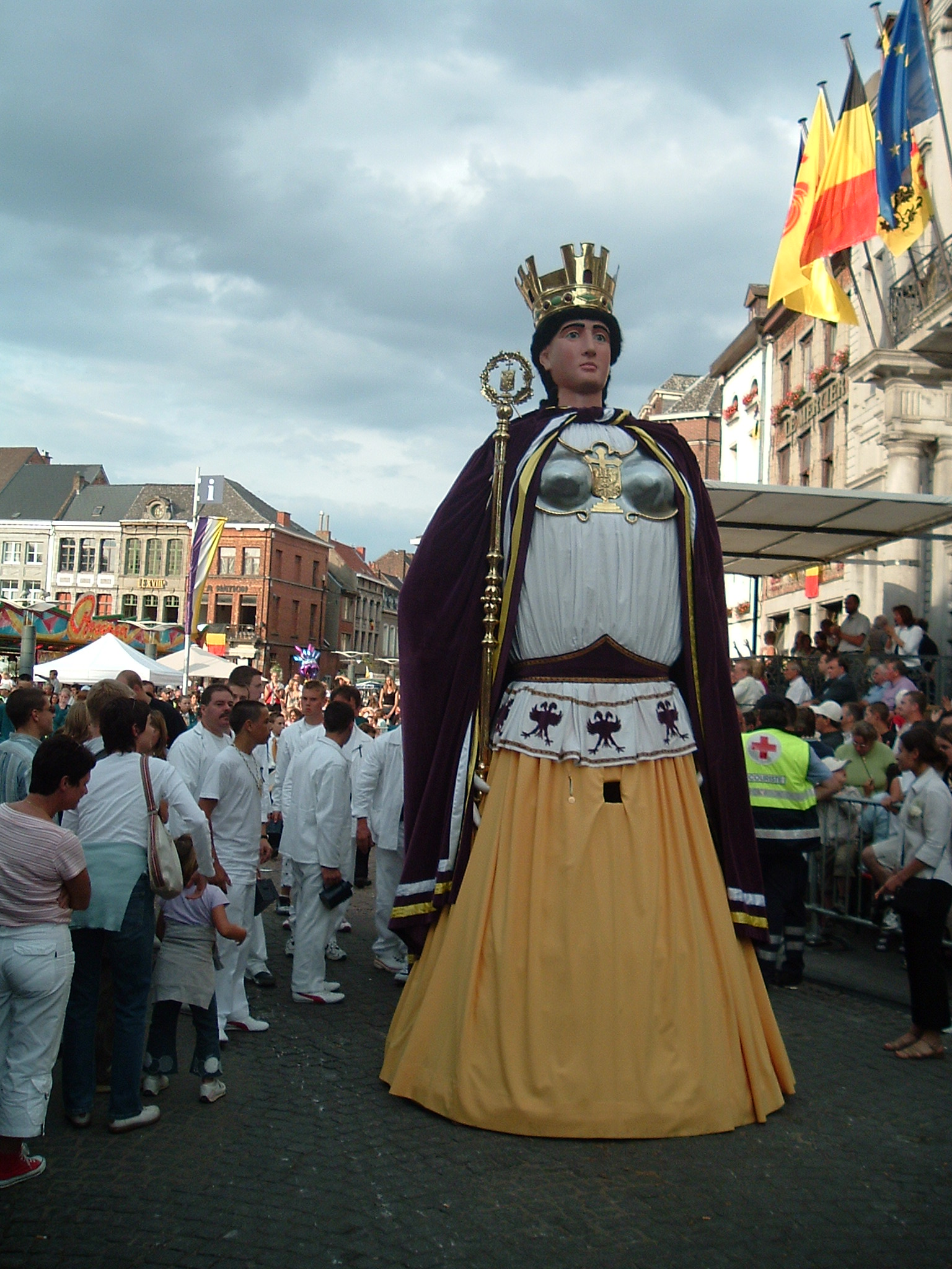 I made the photo myself, I release it into the public domain with no copyrights. - Daniel71953